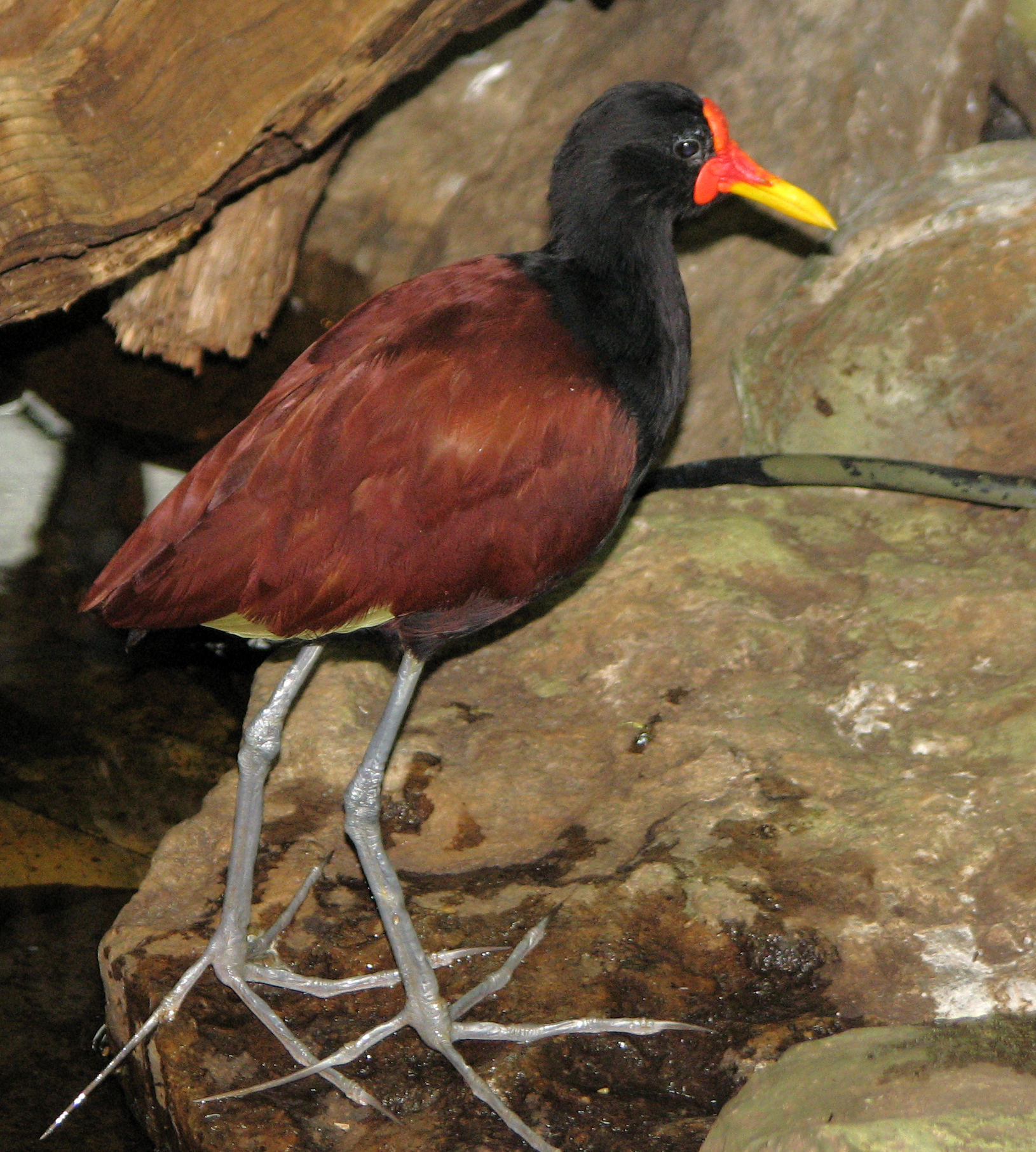 A Wattled Jacana (Jacana jacana) at the Bird Kingdom aviary in Niagara Falls, Ontario, Canada.